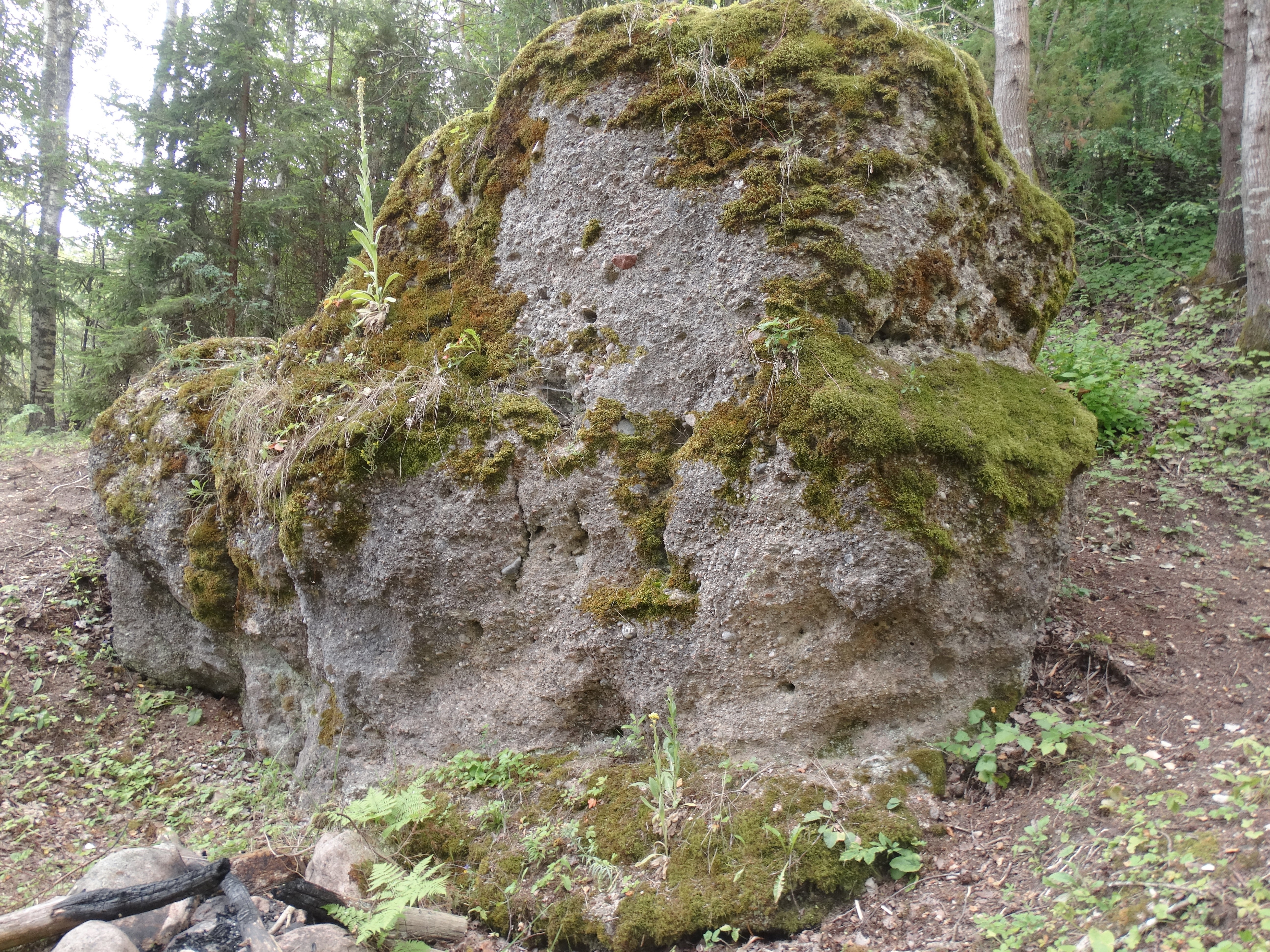 Conglomerate in Antakmenė, Ignalina district, Lithuania